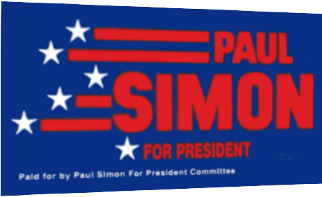 Paul Simon presidential campaign, 1988